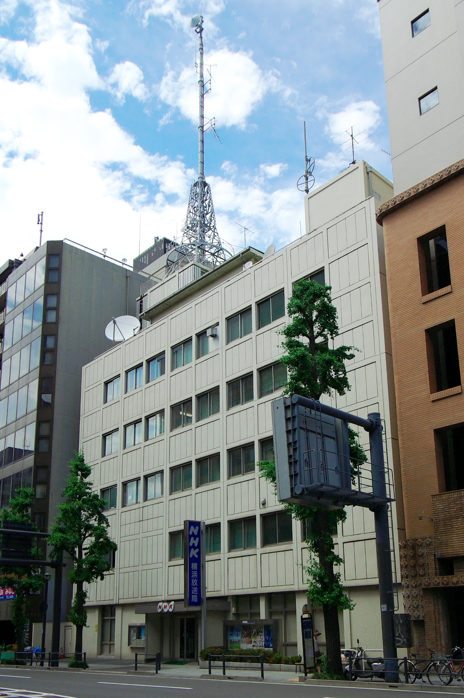 Photograph of NHK Yokohama Broadcasting Station Building in Honcho, Naka-ku, Yokohama, Kanagawa Prefecture, Japan.